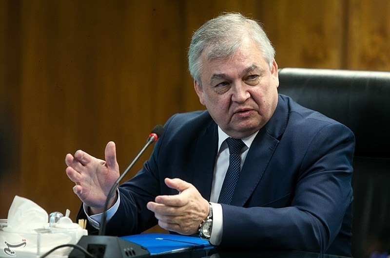 Russia’s special envoy on Syria and lead negotiator to the Astana talks, Russian diplomat Alexander Lavrentyev